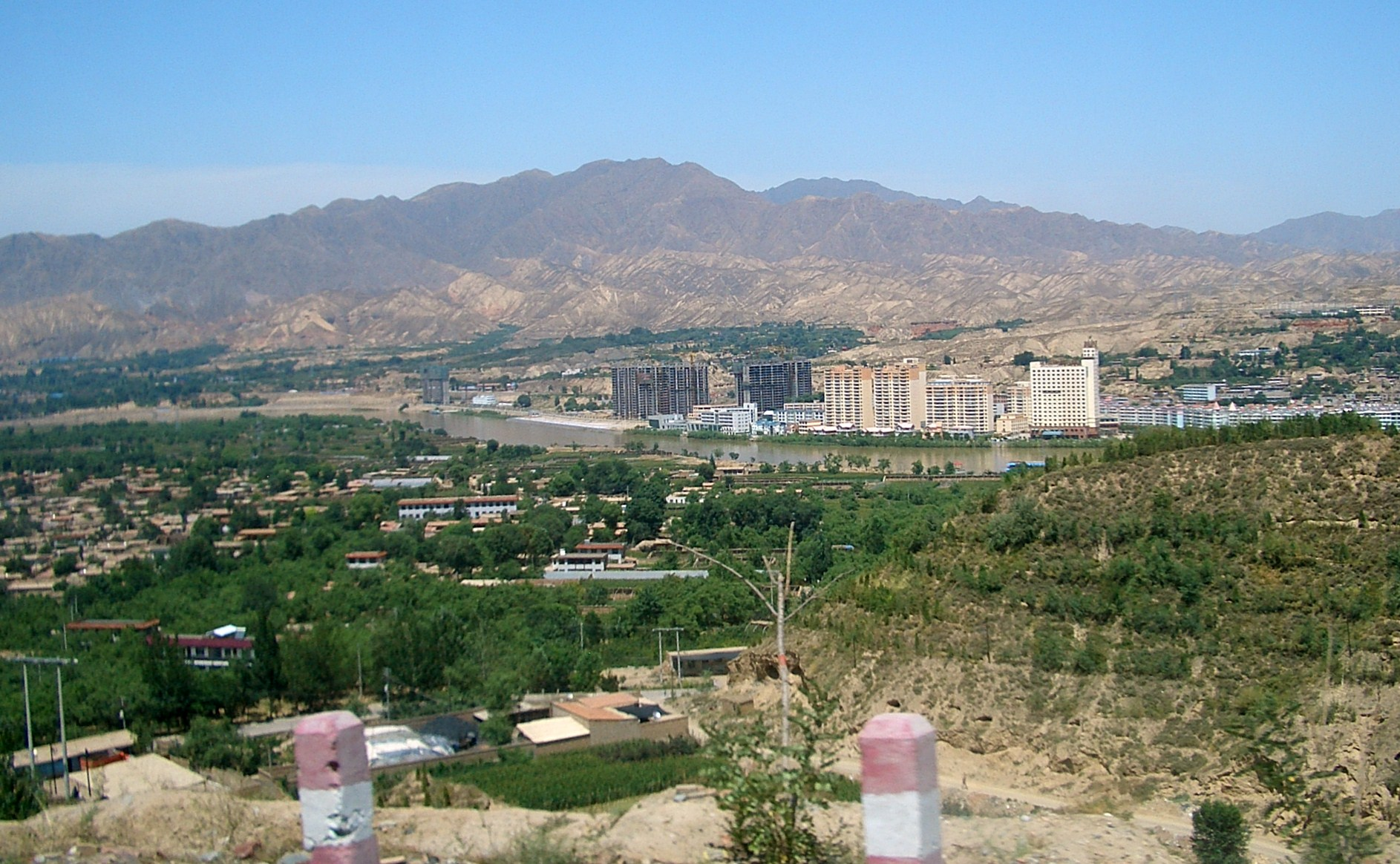 Liujiaxia Town seen from the south (from across the Yellow River)